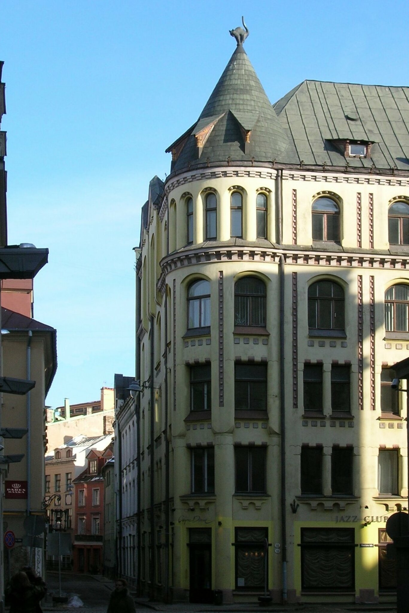 Riga - Cat's House.